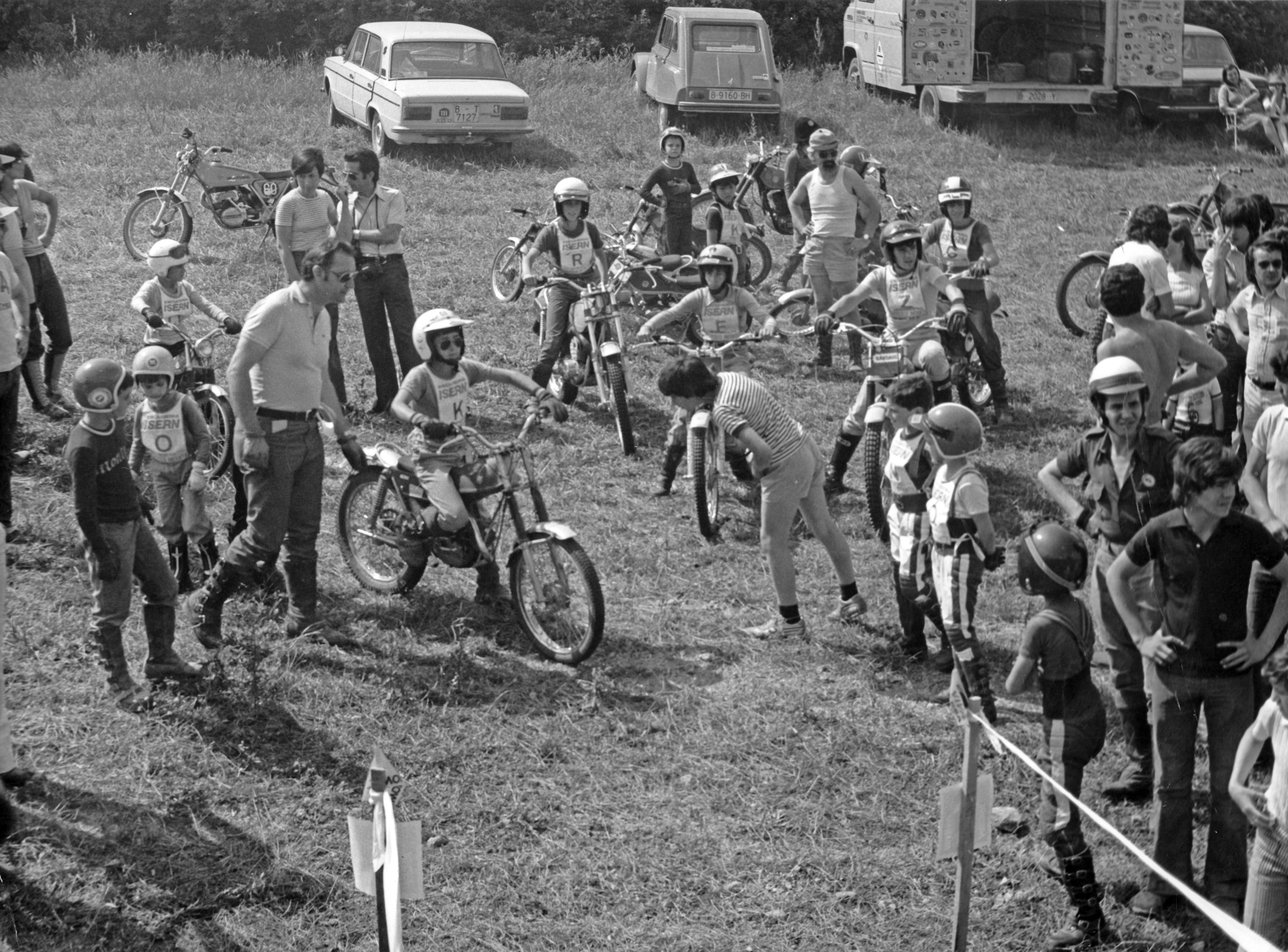 Oriol Puig Bultó and some learners at VI Children's Course of the Motoclub Mollet